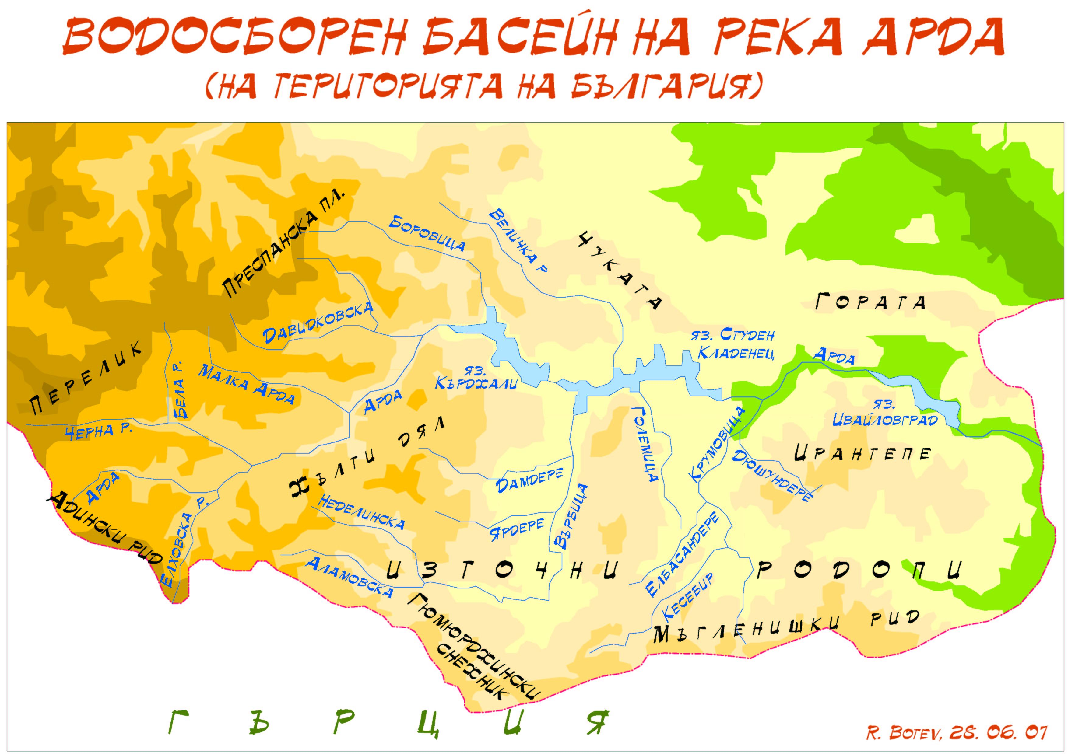 Map of Arda Bassin in Bulgaria